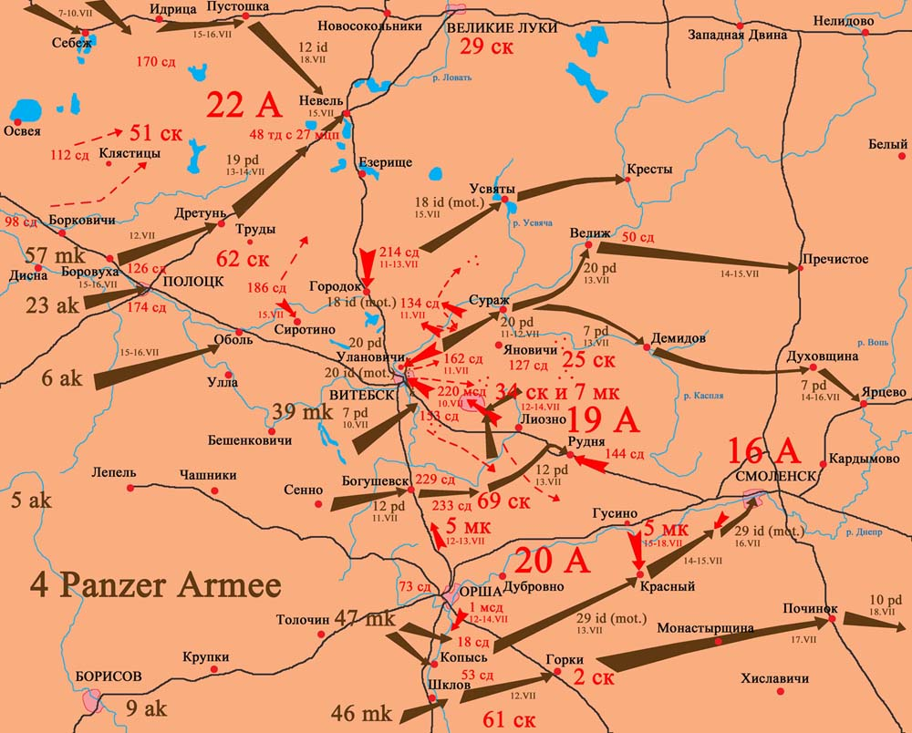 The German Drive toward Smolensk, July 1941